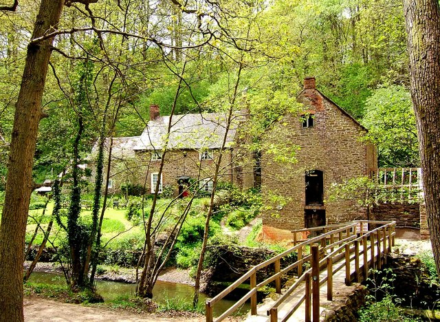 Knowles Mill and footbridge, Wyre Forest There are public footpaths on both sides of the Dowles Brook, and the footbridge by the mill connects these. The public are able to use the bridge to cross the brook.